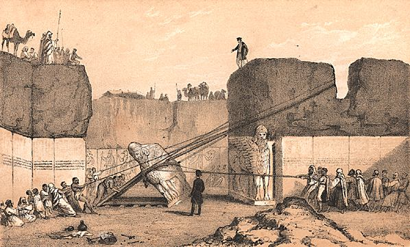 excavations of Nineveh